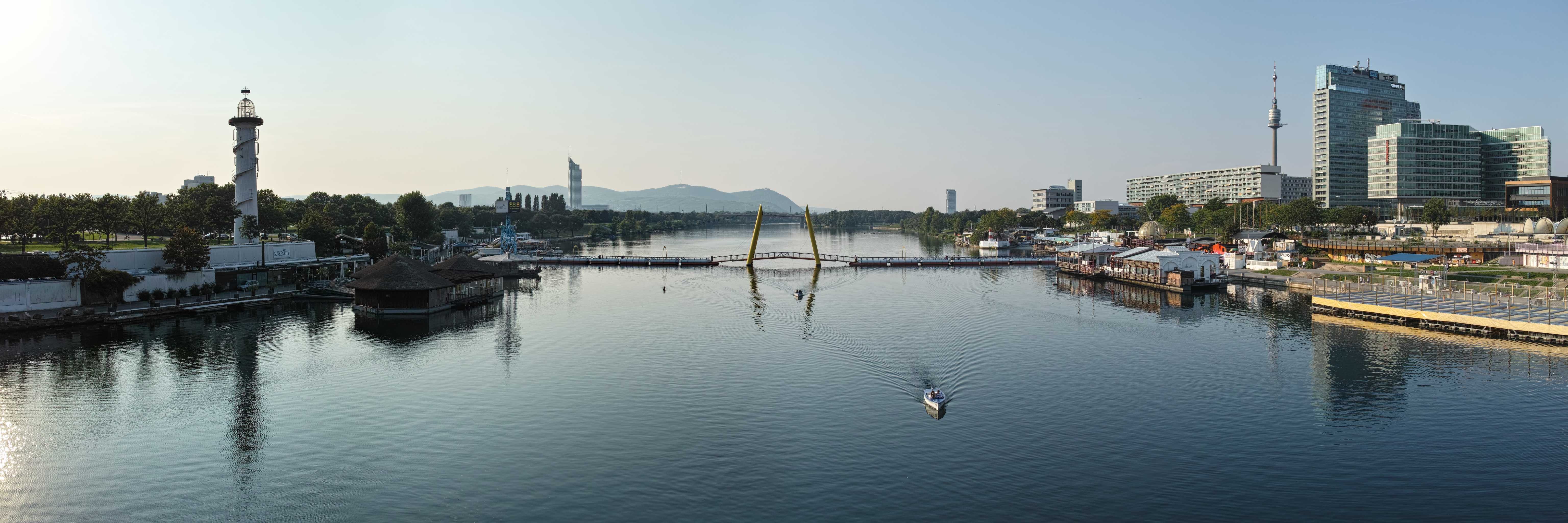 The New Danube ("Neue Donau") in Vienna viewing upstream from Reichsbrücke on September 5, 2014.